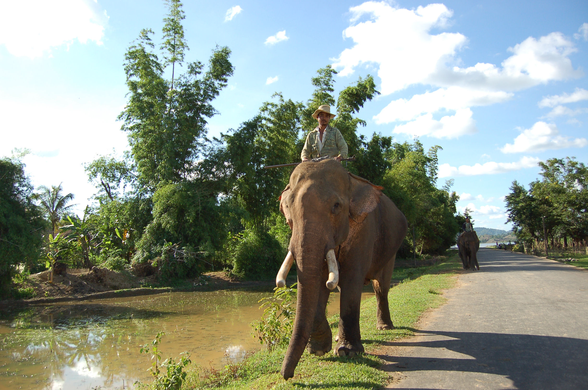 Mnong mahout near Lăk Lake in Đắk Lắk, Vietnam - ISO code VN-E-DL